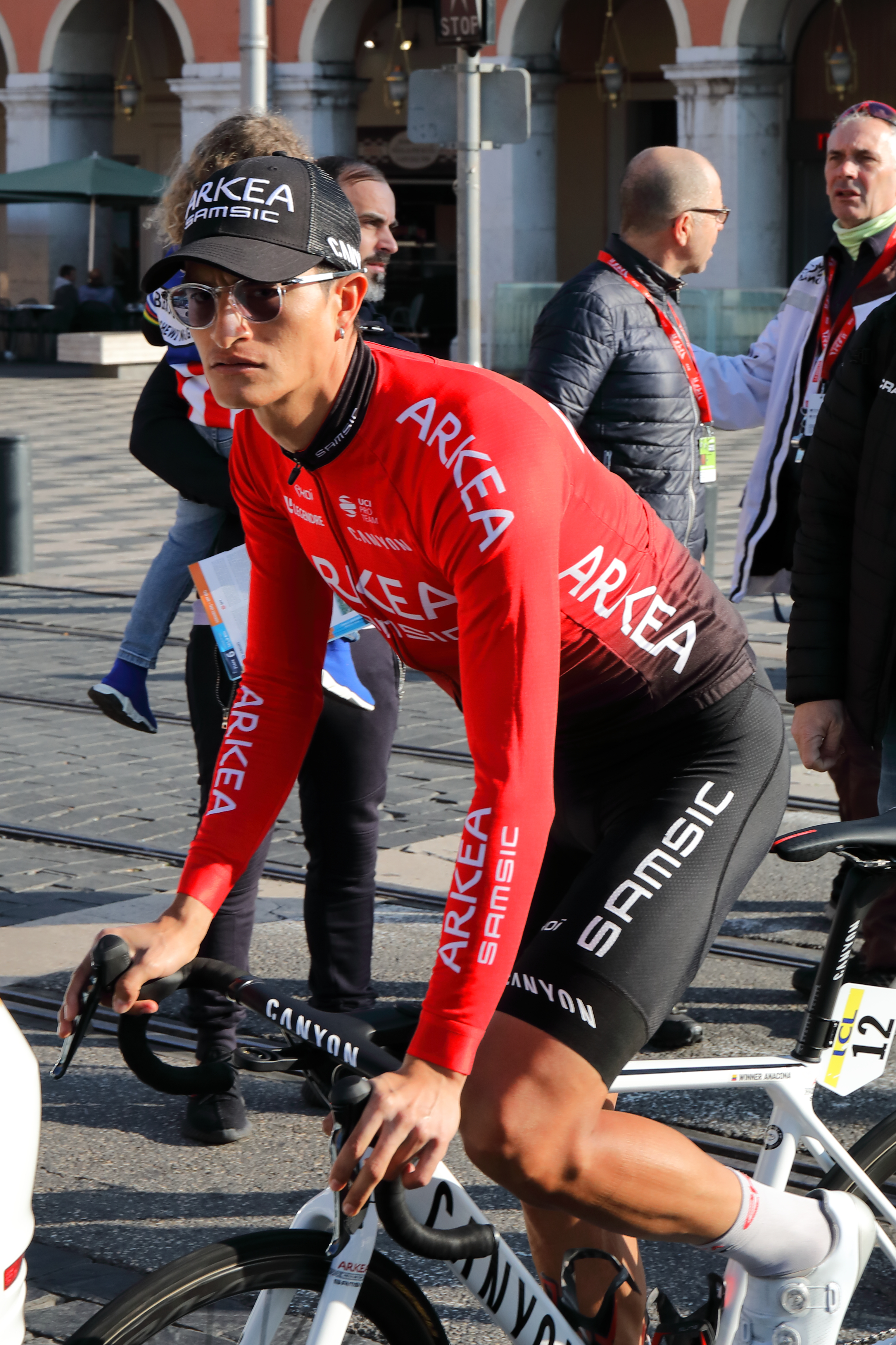 Winner Anacona in Nice at the start of the 7th stage of the 2020 Paris-Nice